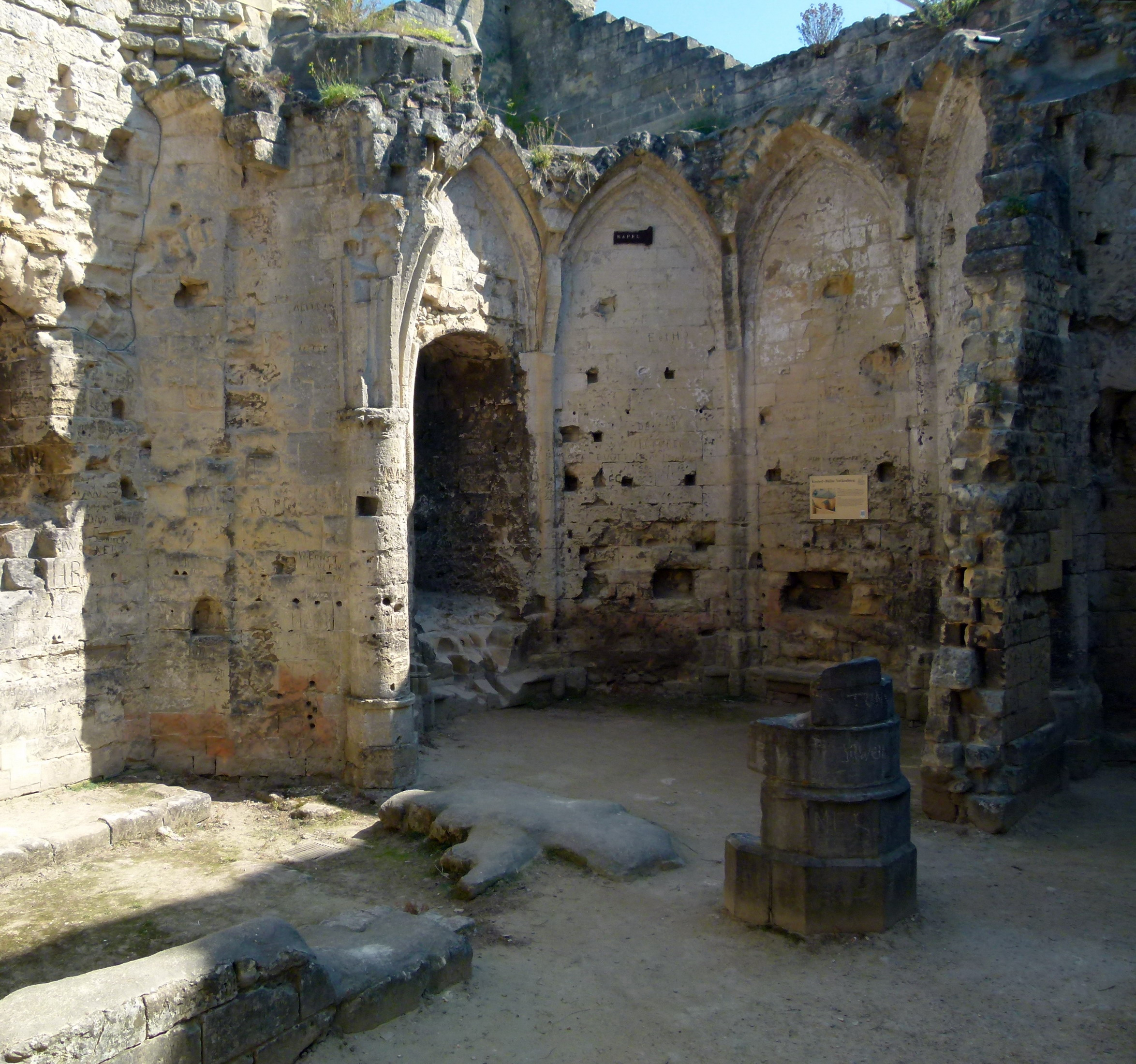 Valkenburg, Limburg, the Netherlands. View of the ruined chapel of Valkenburg Castle, destroyed in 1672.